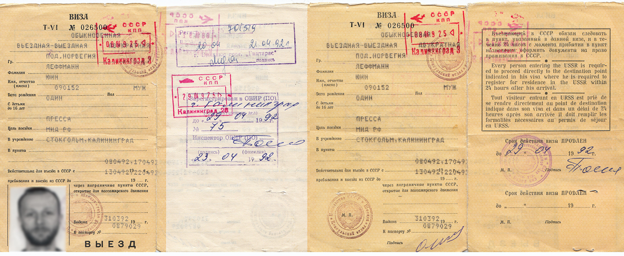 Press visa to Russia, stamped in Kaliningrad 1992